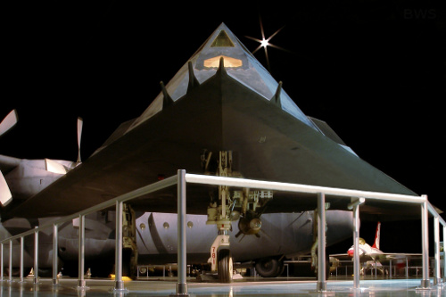 Lockheed F-117A, National Museum of the United States Air Force, Wright-Patterson Air Force Base, near Dayton, Ohio, USA